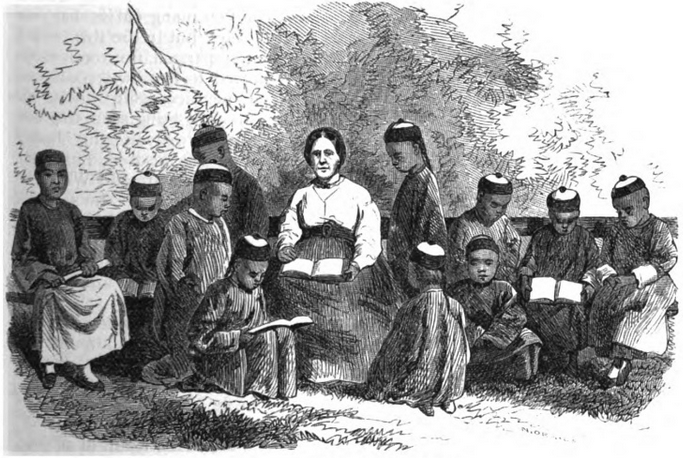 Lydia Mary Fay and her students at Shanghai Hong, at the High School of the Kingdom of the Flowery Flag (poetic name for America). From an 1872 publication.